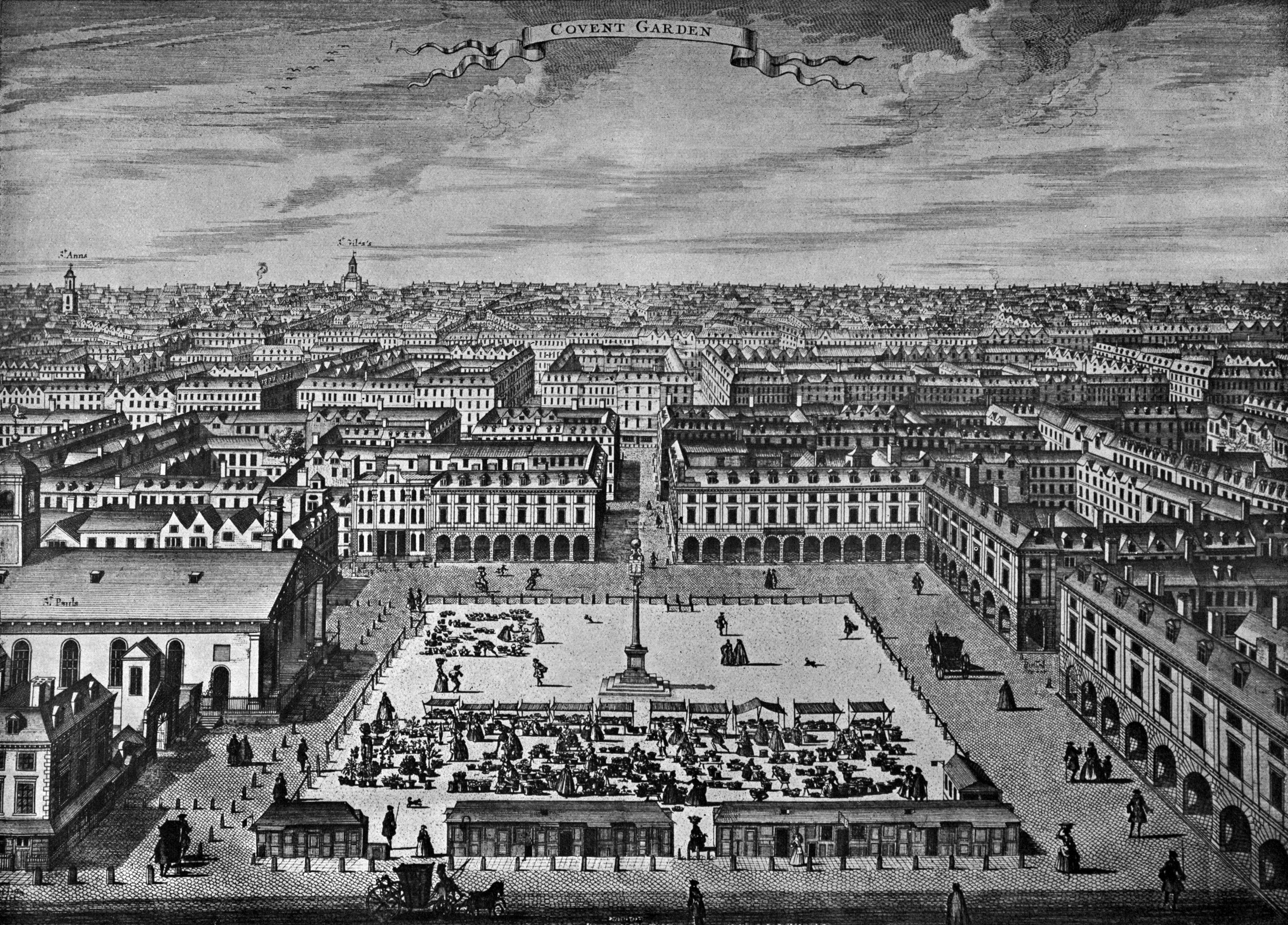 General view of Covent Garden looking north, circa 1720, from an engraving by Sutton Nicholls: this engraving was first published in London Described or the most noted Regular Buildings both Public and Private, with the Views of several squares in the Liberties of London and Westminster (1731).[1]